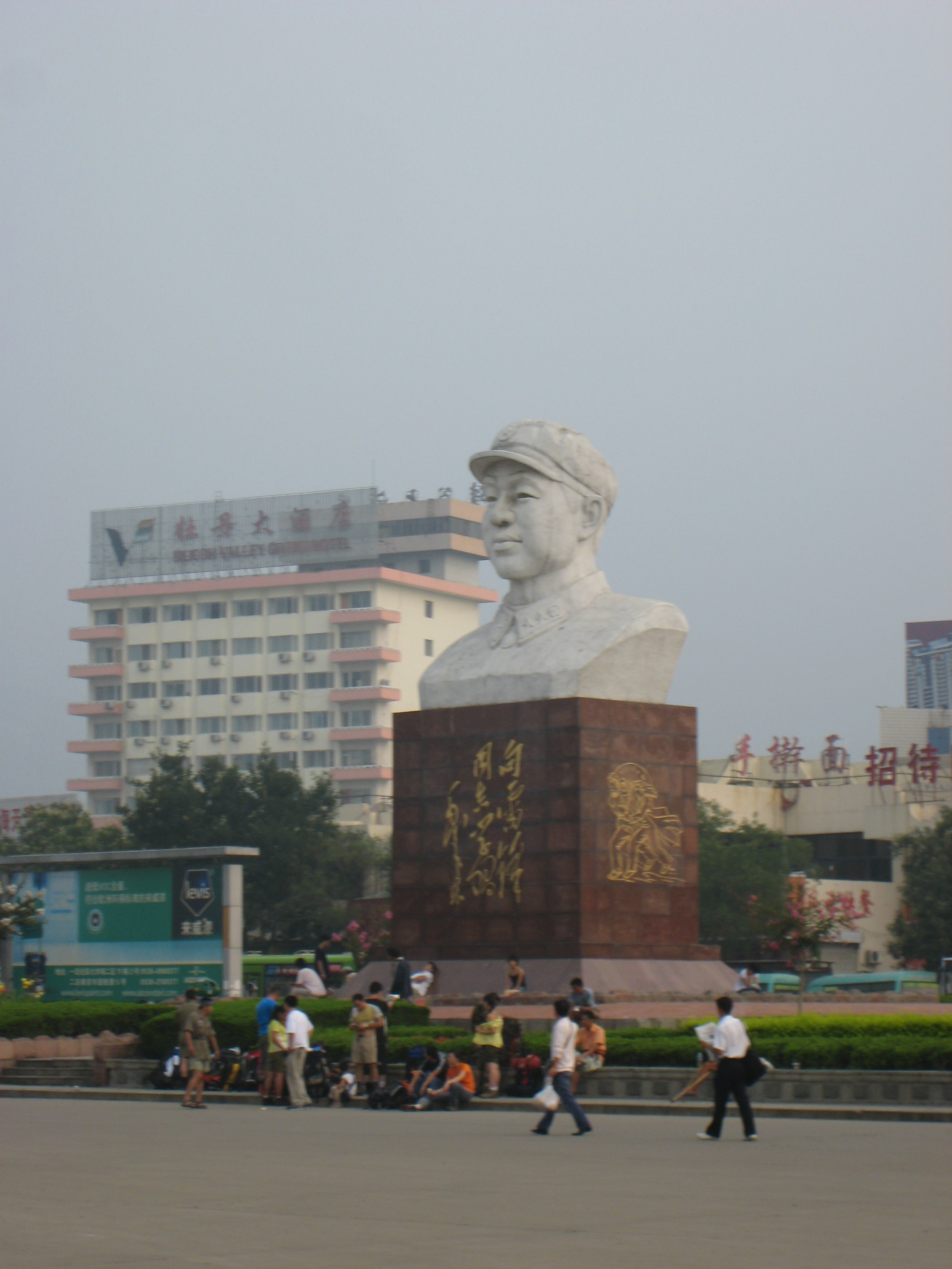 Statue of Lei Feng (雷锋) at the Tai'an, Shandong Train Station.